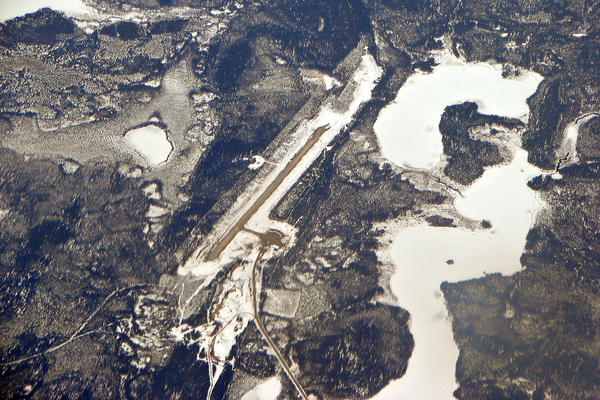 Aerial view of Bearskin Lake Airport, Ontario, Canada